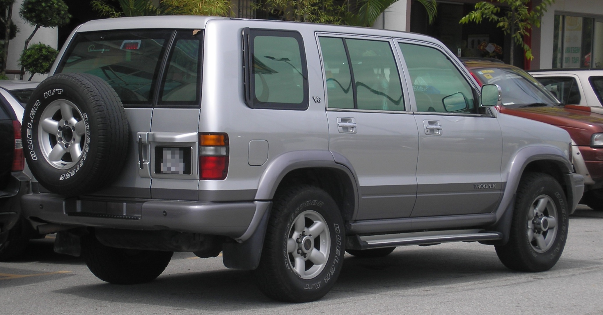 Rear quarter view of a second generation Isuzu Trooper, in Serdang, Selangor, Malaysia.